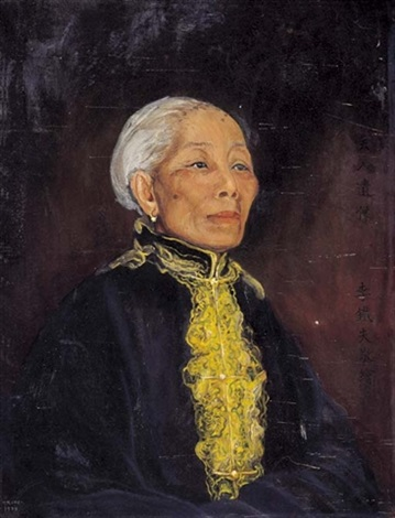 李鐵夫的油畫《劉太太像》